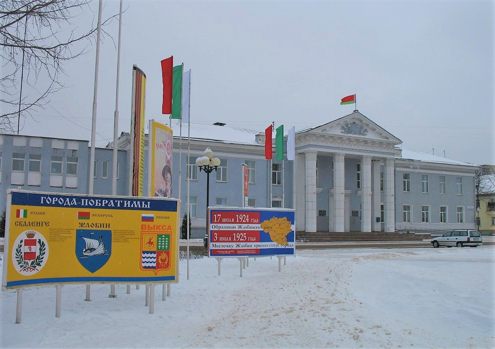 The town hall of Zhlobin, located in the Gomel oblast (province) of Belarus.